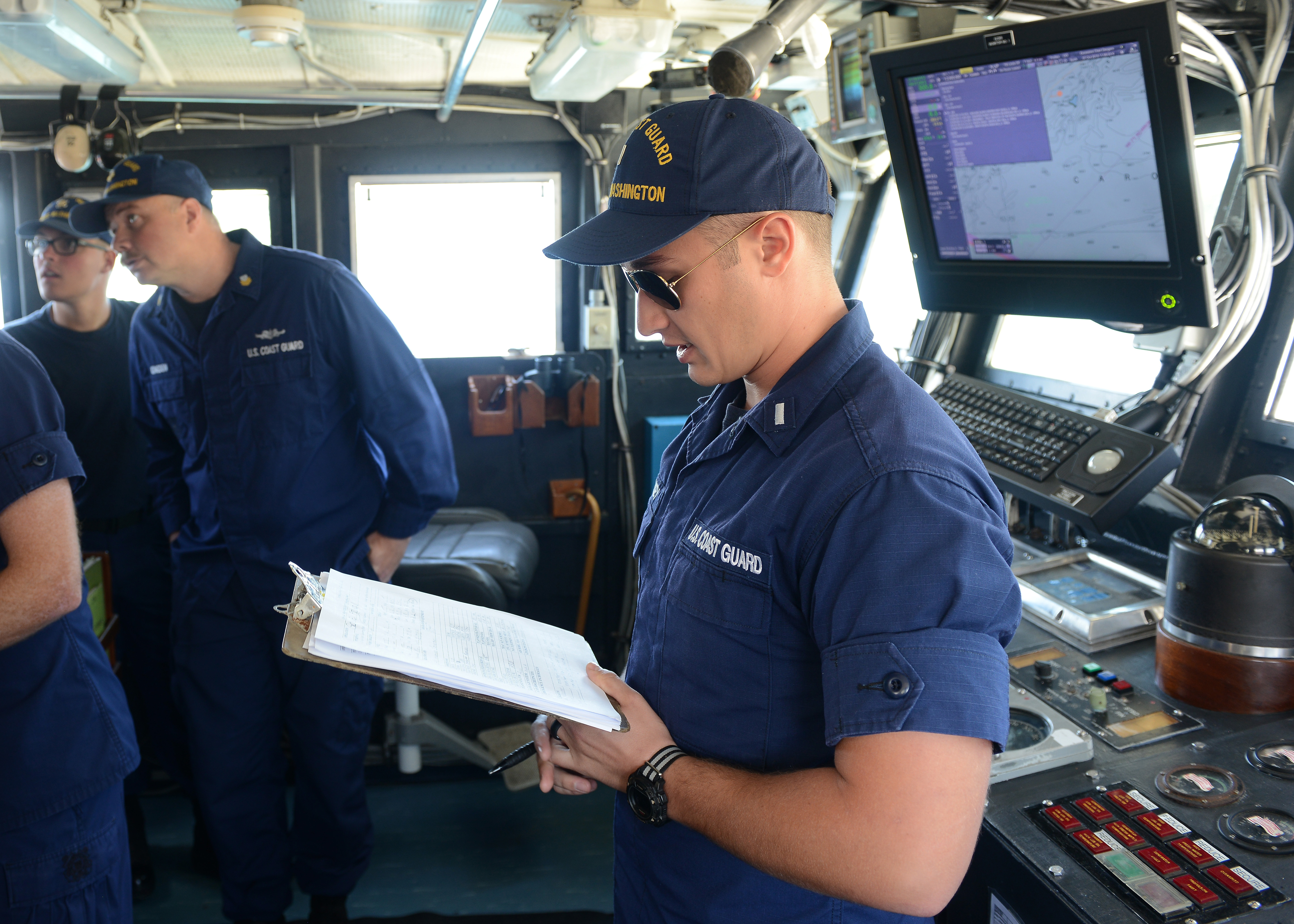 Lt. j.g. Victor Broskey, the Coast Guard Cutter Washington's (1331) executive officer, takes part in a navigation brief on the cutter's bridge prior to getting underway to participate in Operation Kurukuru off Palau, Oct. 6, 2019. Operation Kurukuru is a Pacific Islands Forum Fisheries Agency (FFA) operation intended to detect and combat illegal, unregulated and unreported (IUU) fishing activities. (U.S. Coast Guard photo by Petty Officer 3rd Class Matthew West/Released) VIRIN: 191006-G-NO310-504